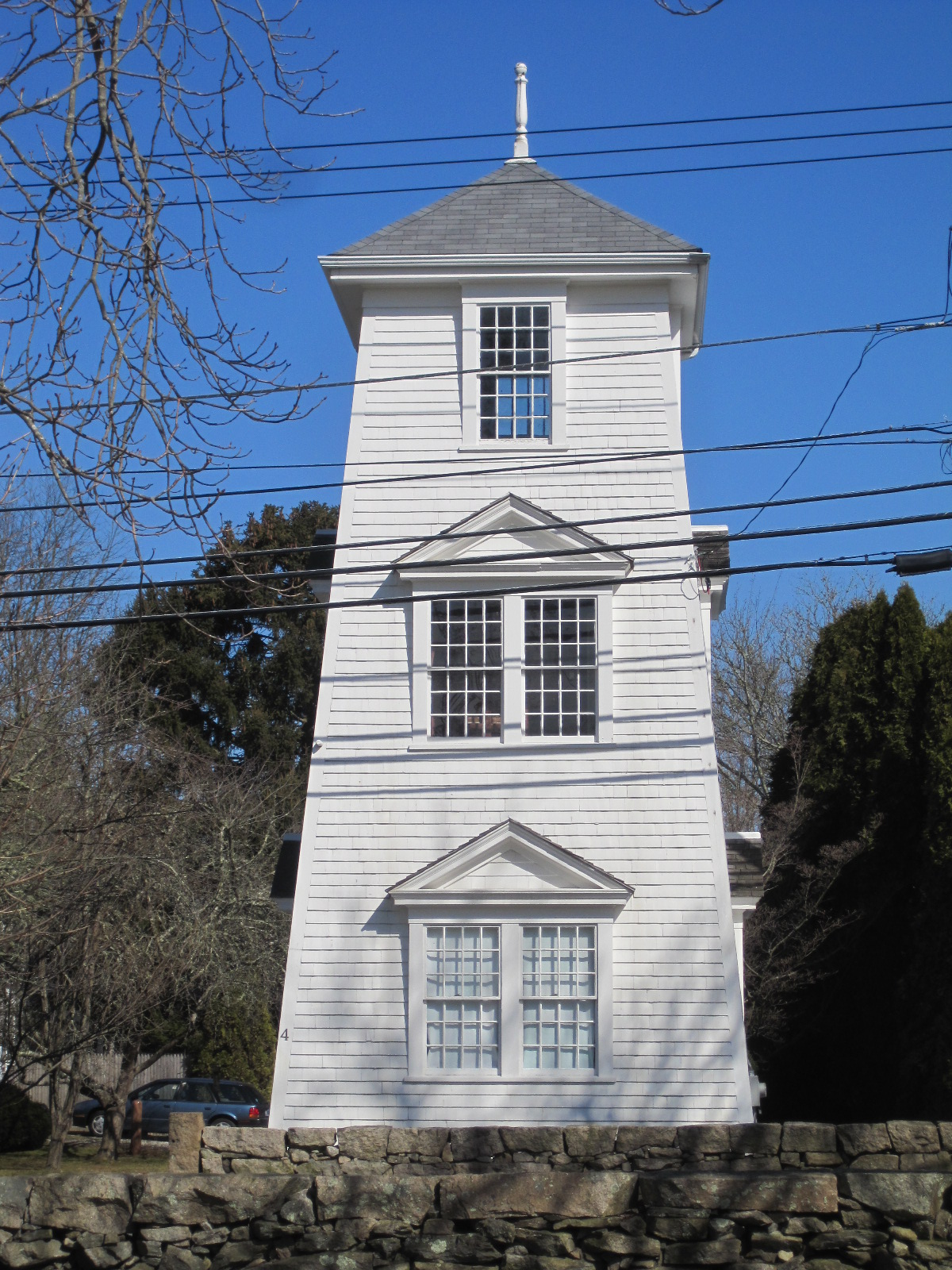 Adamsville Spite Tower - circa 1905 Little Compton, RI